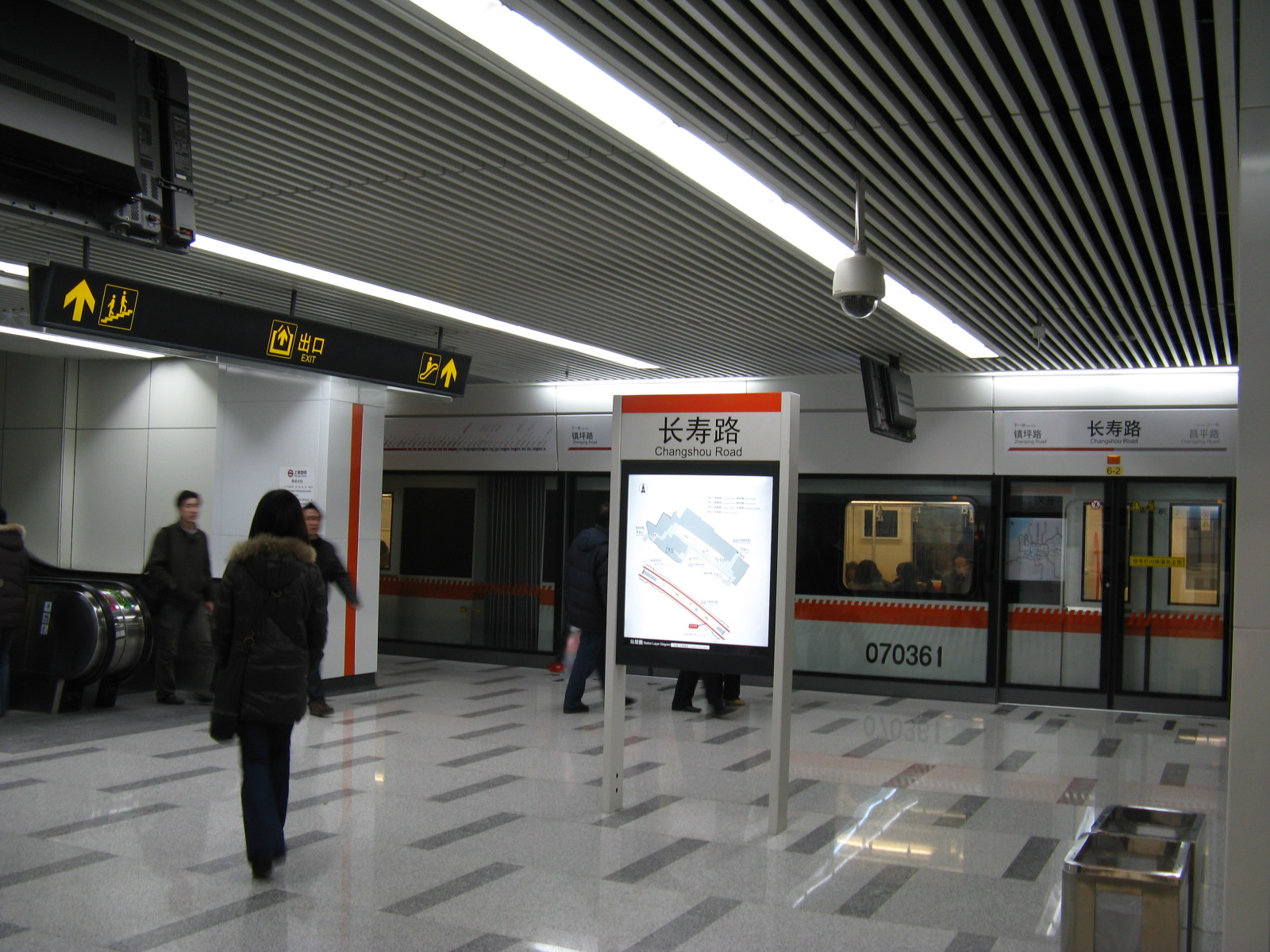 Changshou Road Station Line7 Shanghai Metro